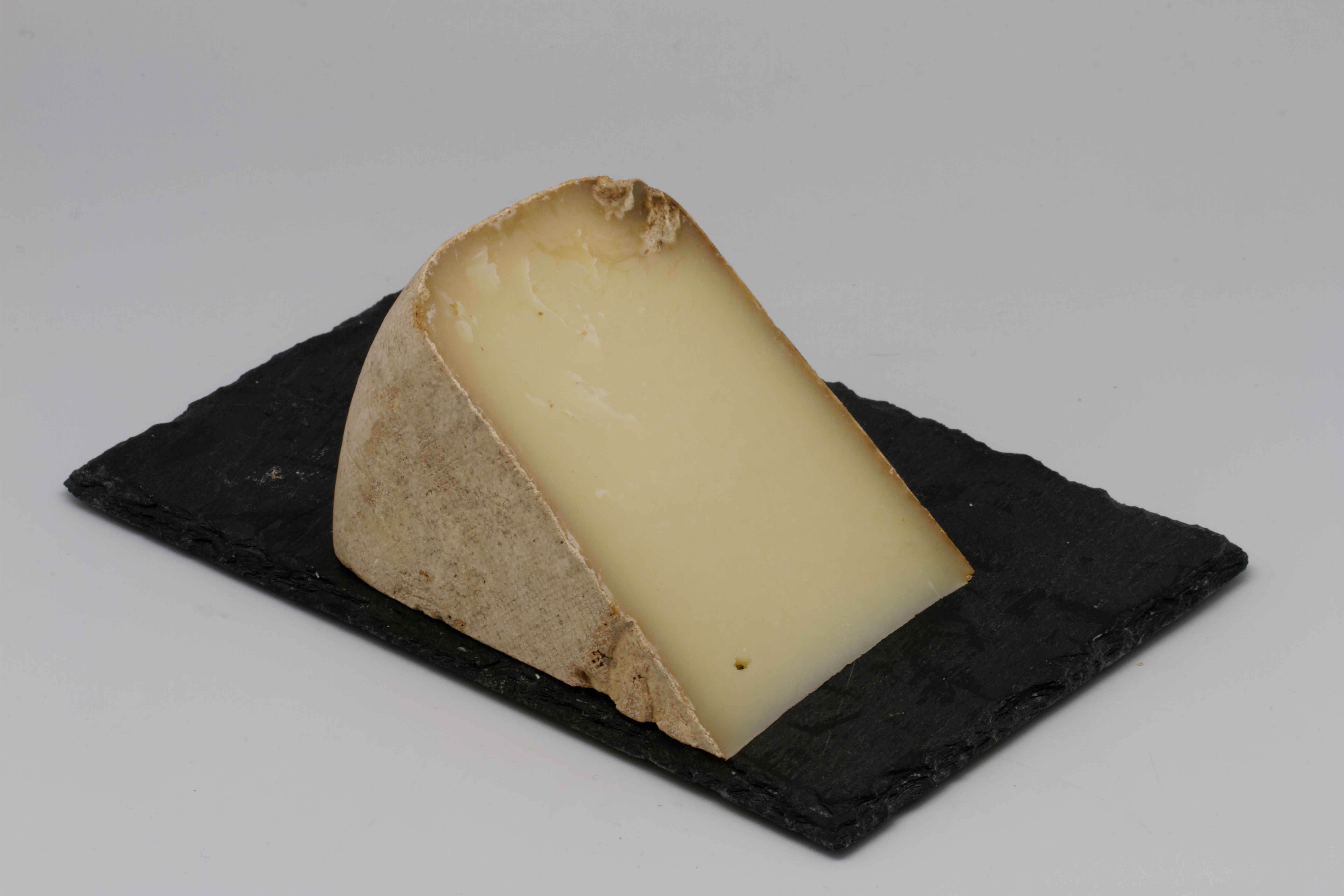 Ossau-iraty